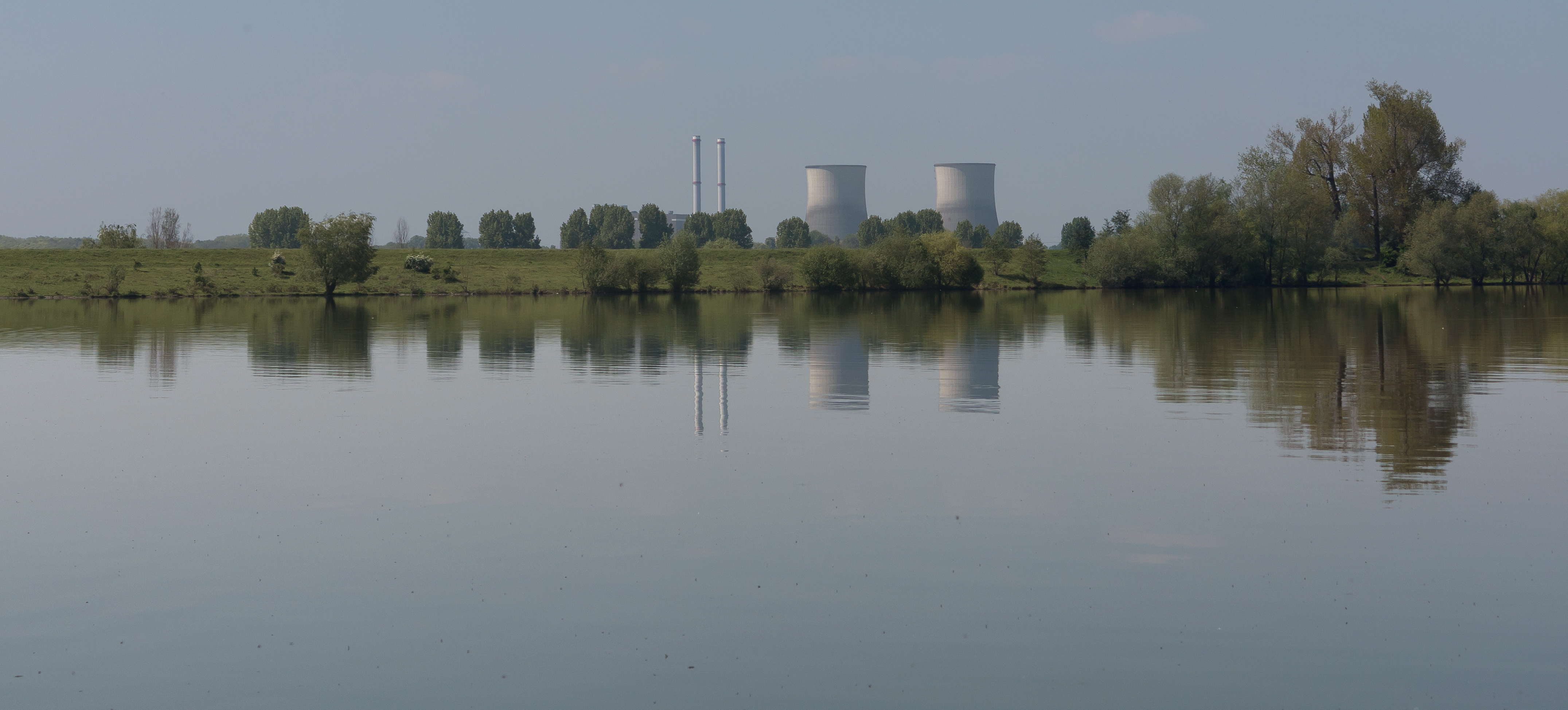 between Merum and Ool, lake: de Oolderplas